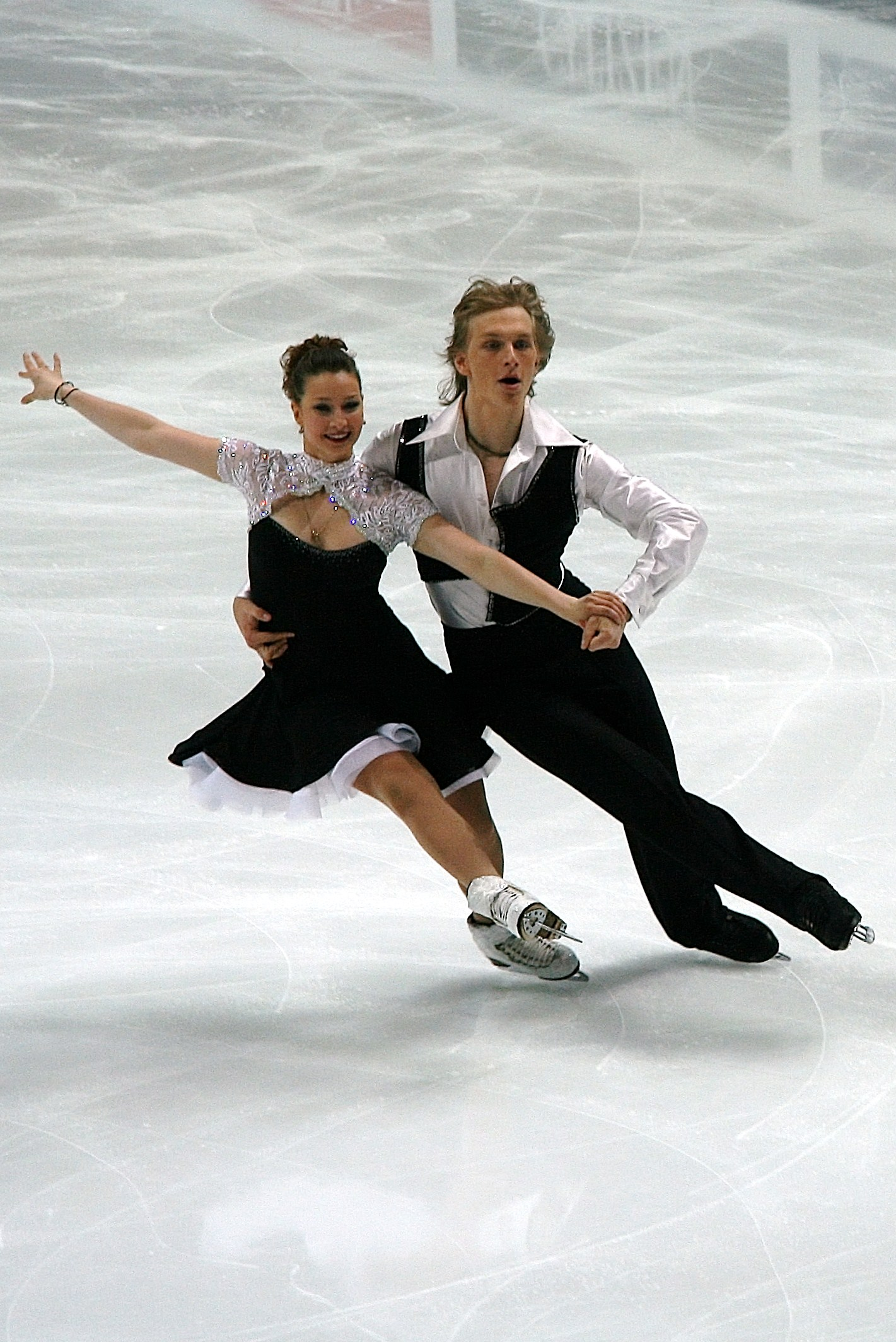 Lucie Myslivečková and Matěj Novák at the 2011 World Figure Skating Championships